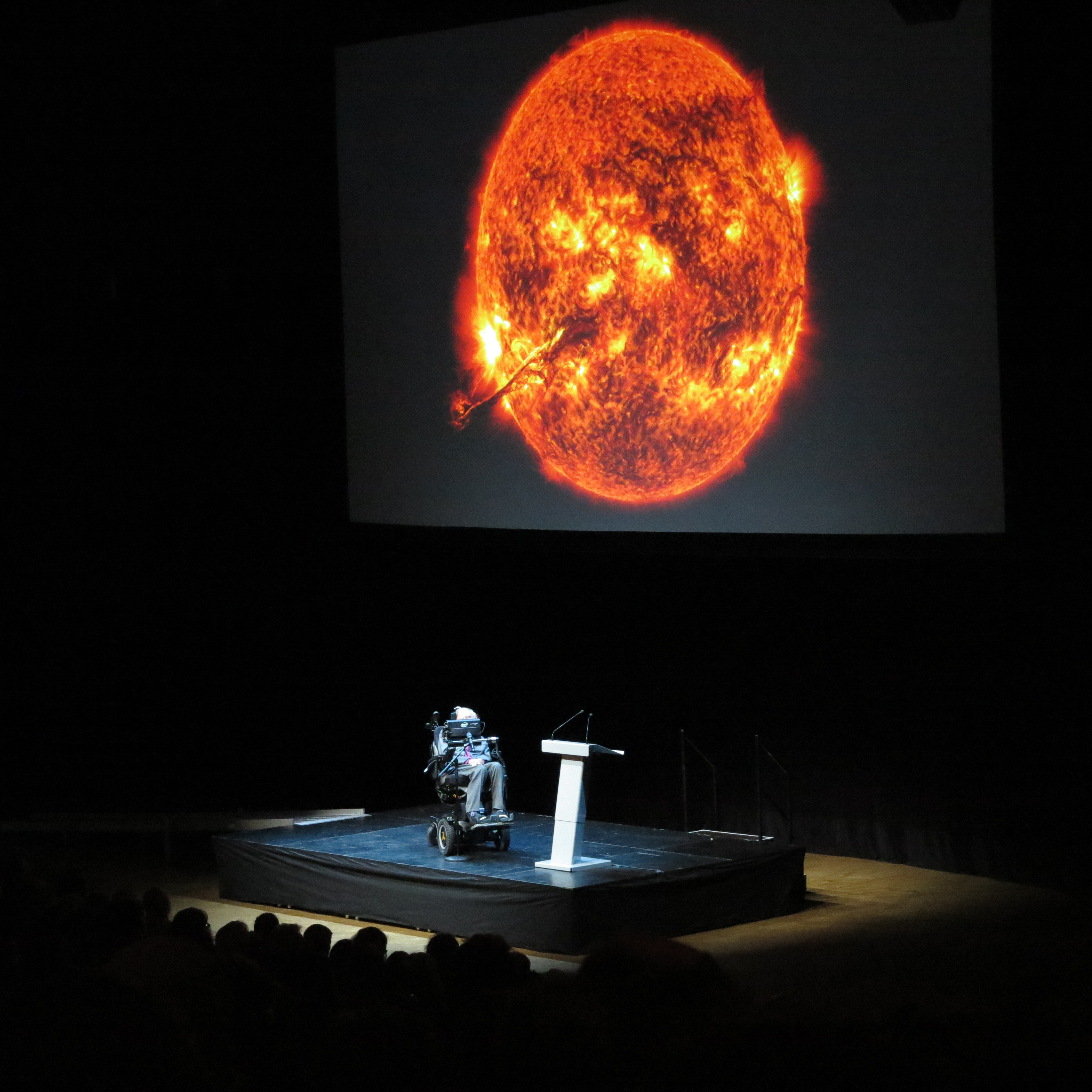 Stephen Hawking holding a lecture at Stockholm Waterfront Congress Centre, 24 August 2015.